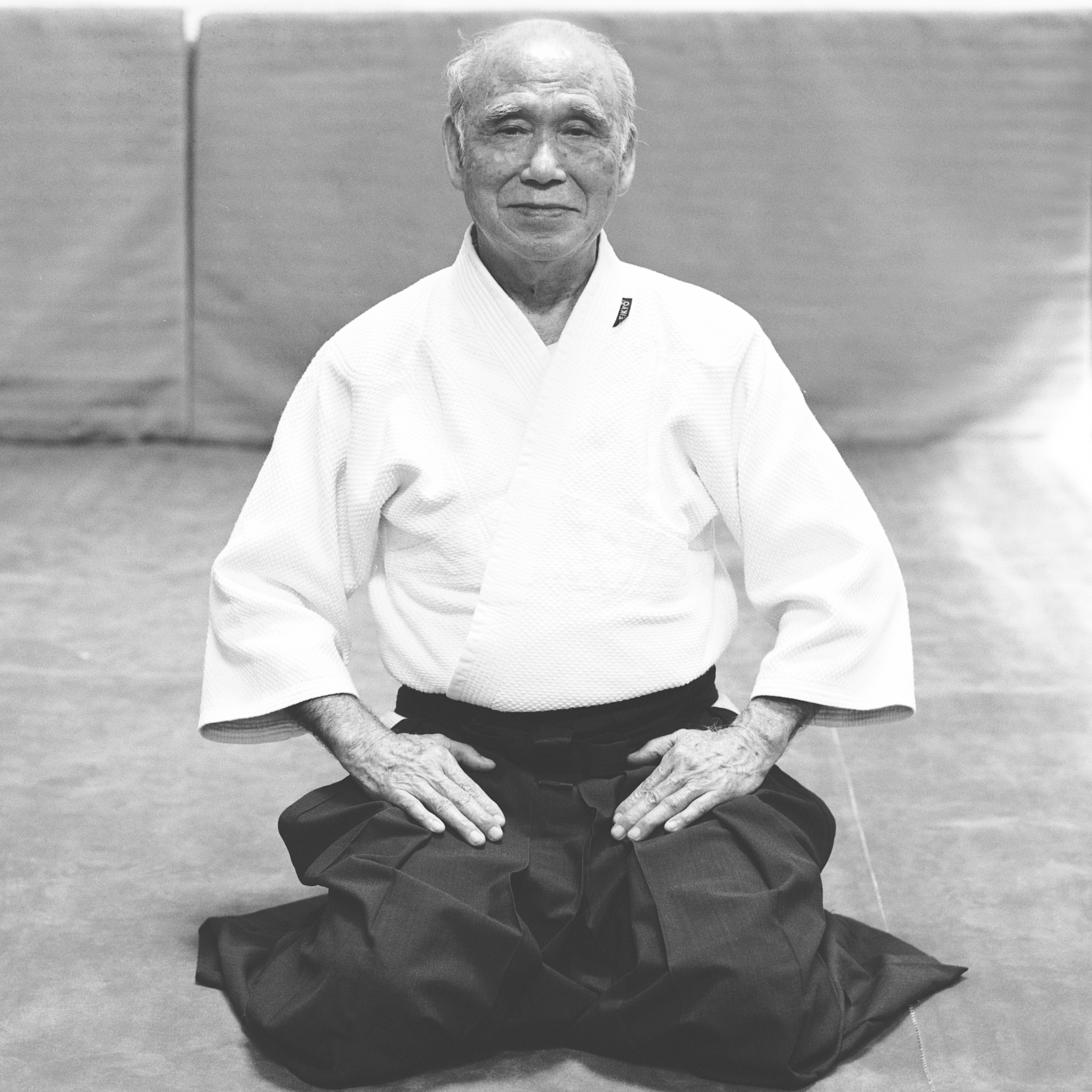 Keizen Ono (小野 恵 全 Keizen Ono, Tokyo, 01 October 1925) is a master of aikido and the oldest practitioner of this art in Brazil. In 2006 he received the title of Shihan along with 7th dan. Ono sensei received the name Keizen when he began his practice of aikido.